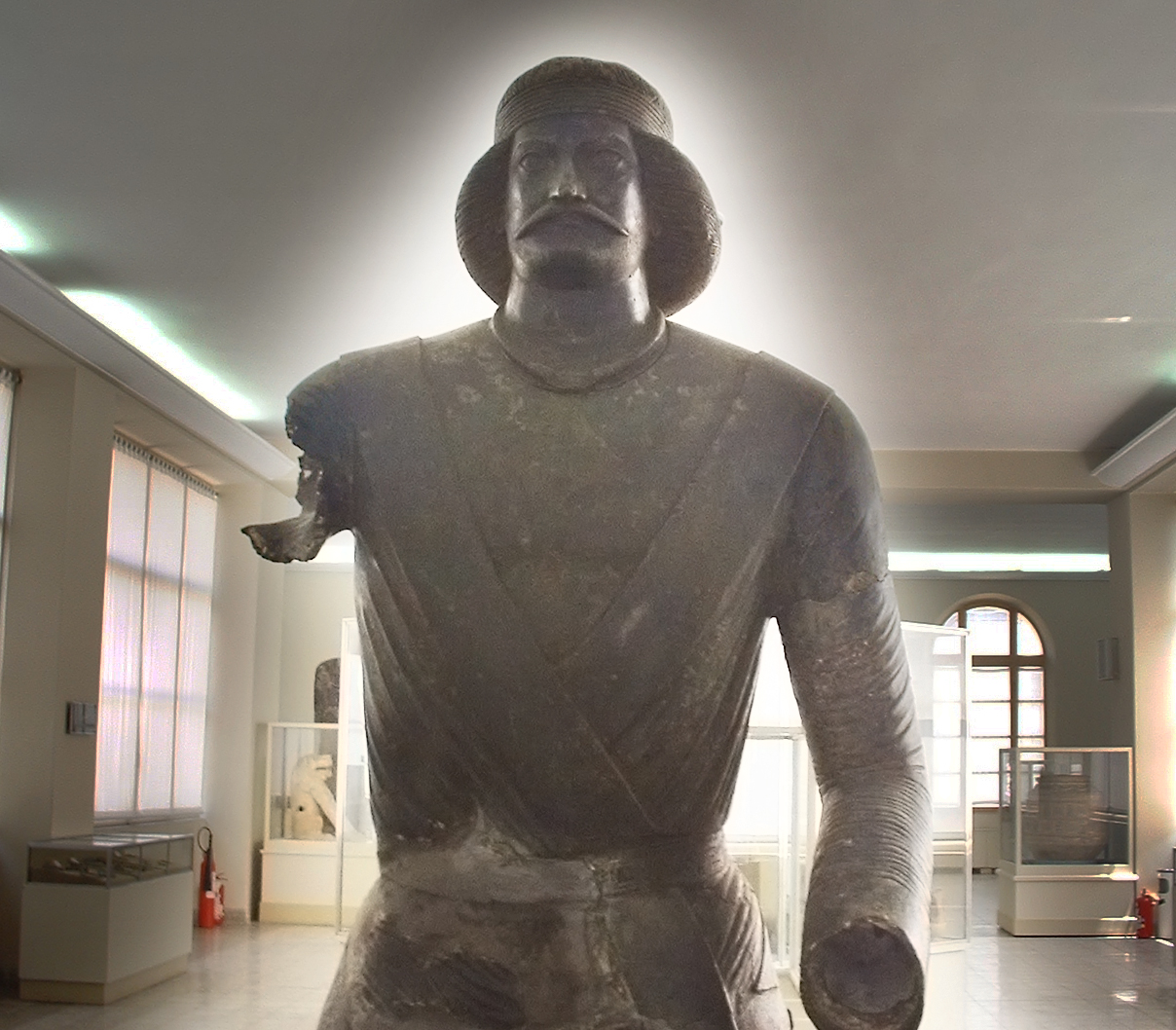 A bronze statue of a Parthian nobleman from the sanctuary at Shami in Elymais (modern-day Khūzestān Province, Iran, along the Persian Gulf), now located at the National Musem of Iran. Information presented here found on page 133 of Brosius, Maria. (2006). The Persians: An Introduction. London & New York: Routledge. ISBN 0-415-32089-5 (hbk). Photo taken by --Aytakin 01:16, 8 December 2005 (UTC).